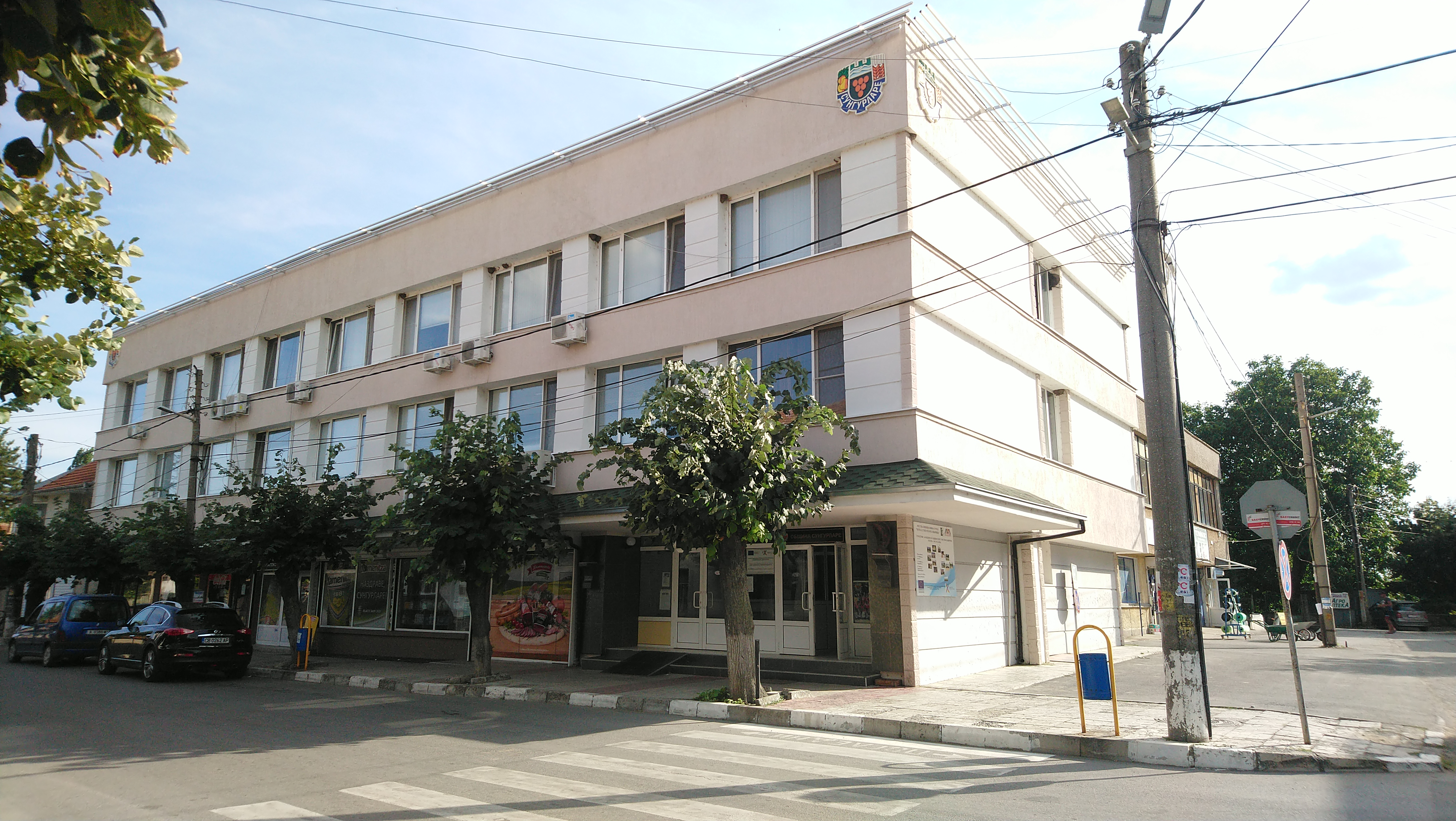 Sungurlare municipality building